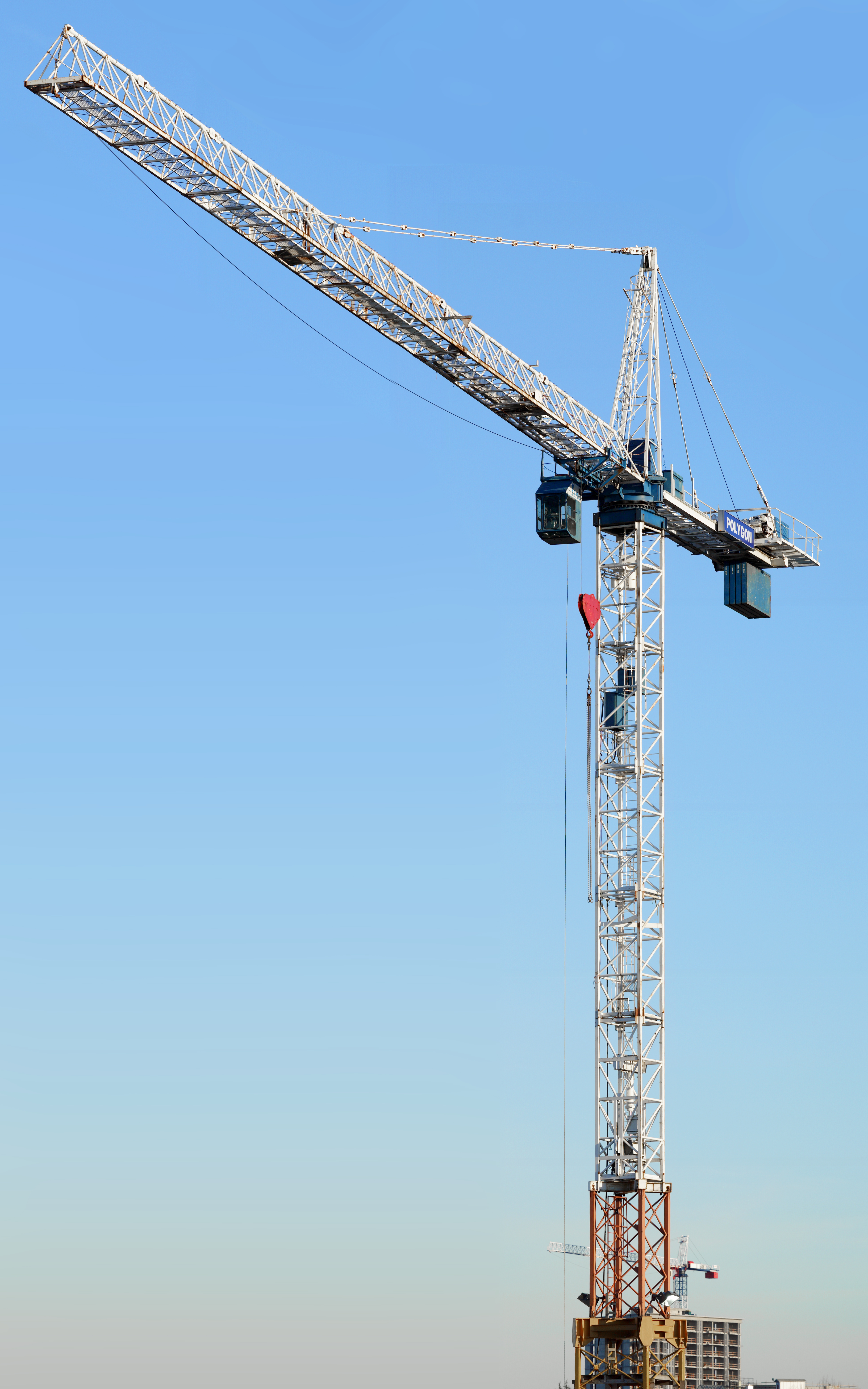 A tower crane, in Vancouver, BC. Whole image stitched together from 9 images. Stitch errors are not parallax. It was a bit windy :P